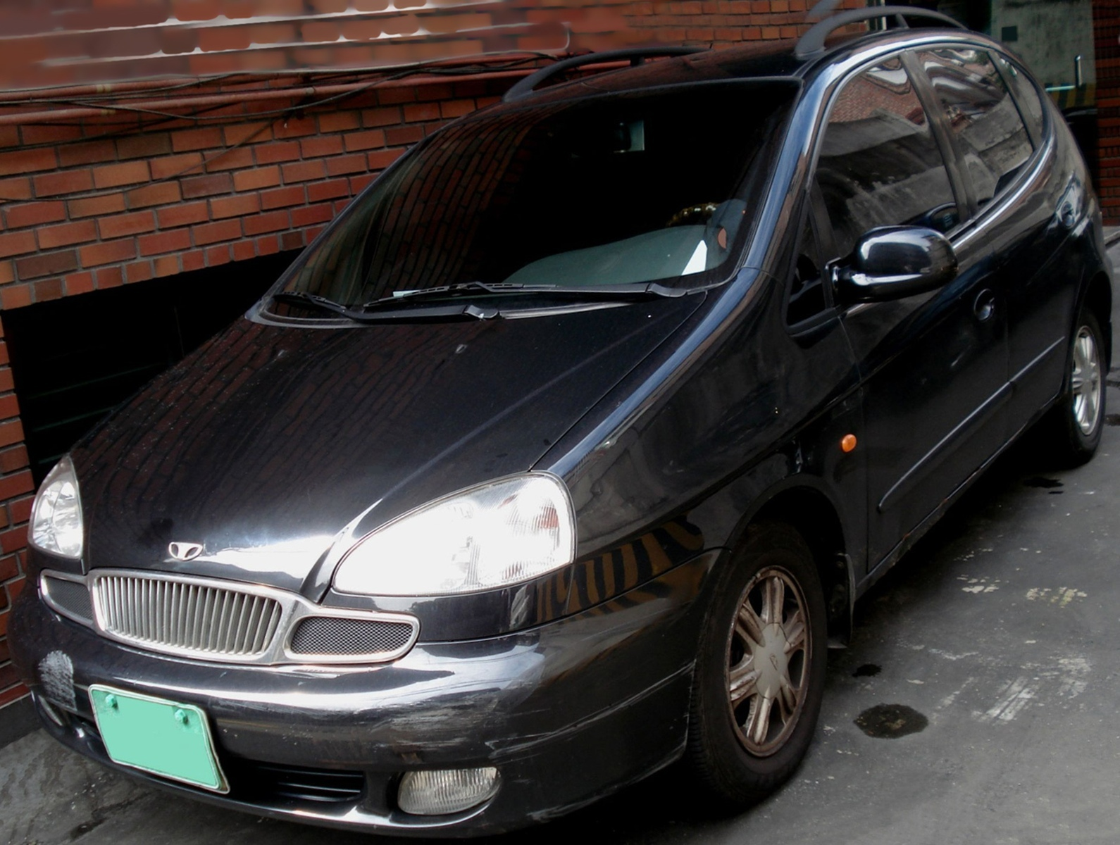 Daewoo Rezzo